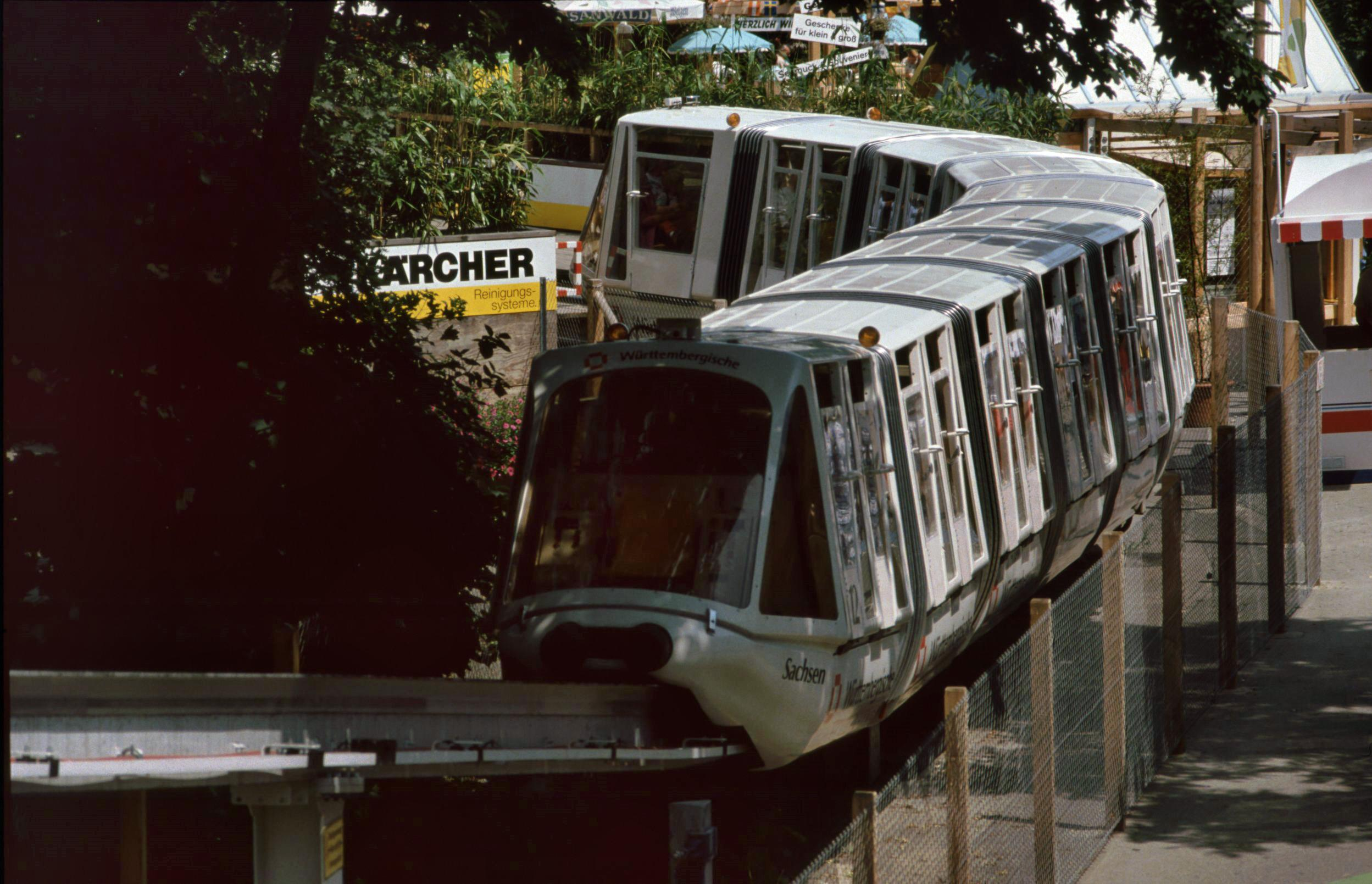 Monorail at the international garden festival 1993 in Stuttgart, Germany